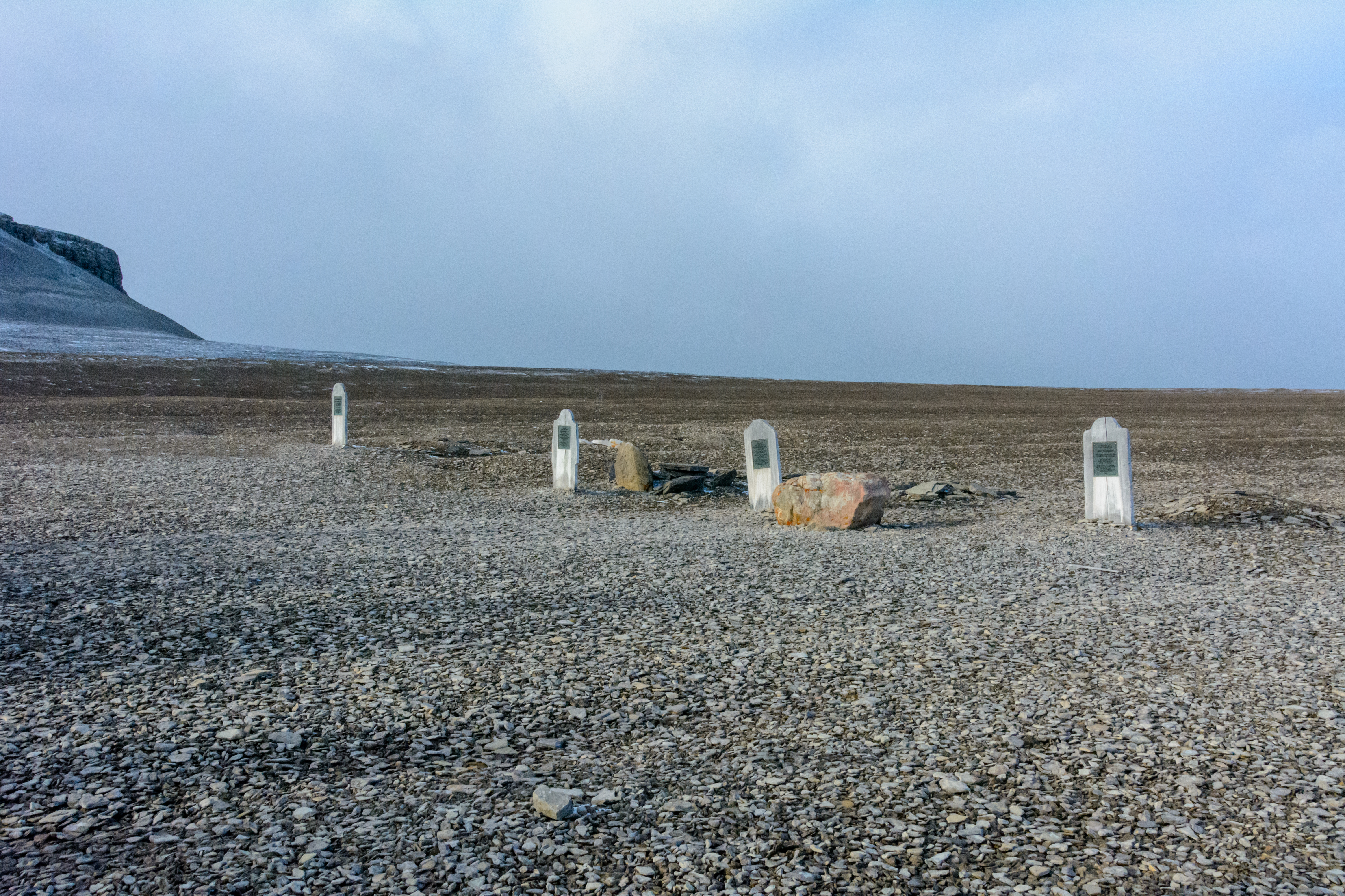 This image was taken at Franklin Camp on Beechey Island, Nunavut Canada on September 11, 2015. Three graves (L-R) commemorate John Torrington, Wiliam Braine and John Hartnell of the Franklin Expedition. A fourth headstone marks the grave of a sailor named Thomas Morgan who came later in a Franklin search expedition and died at the camp.